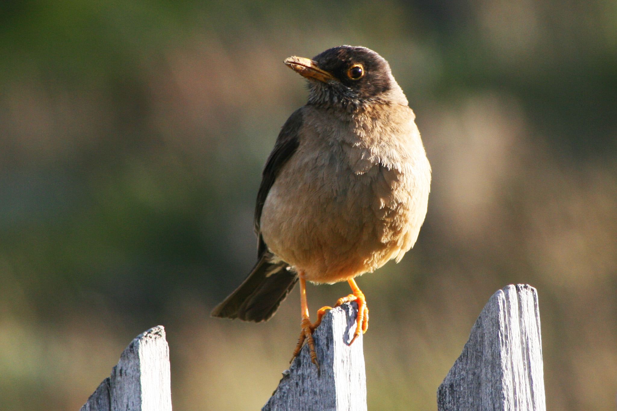 Turdus falcklandii in Torres del Paine